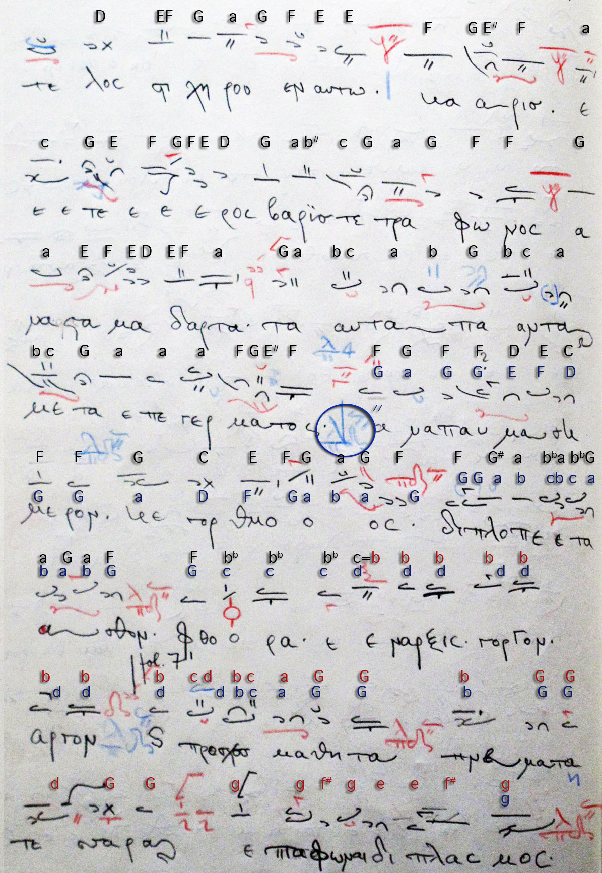 Conclusion of John Koukouzeles' "Mega Ison" (last section echos protos); copy and transcription of Biblioteca apostolica vaticana, Ms. ottob. gr. 317, fol. 5v-7v & Ms. vat. gr. 791, fol. 3v-5.